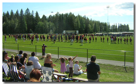 Match med RIK